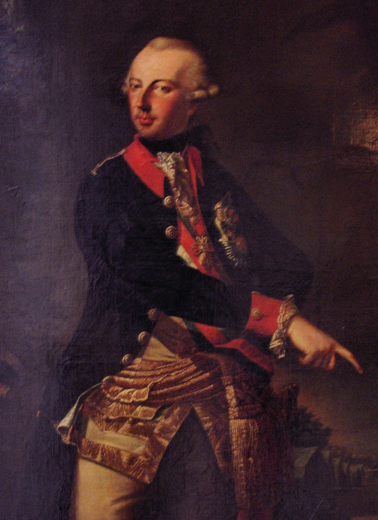 Portrait of Joseph II, Holy Roman Emperor (1741-1790)